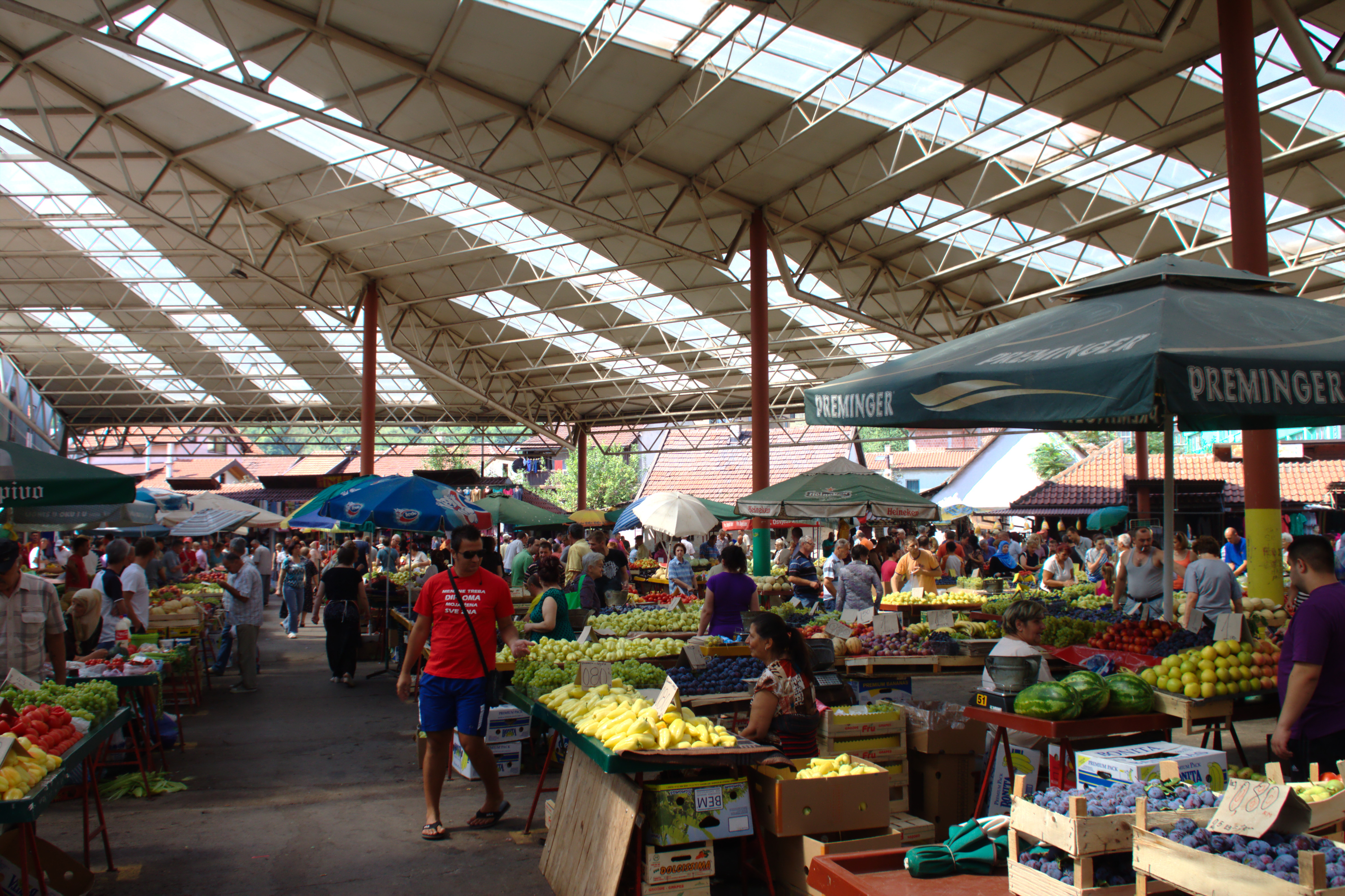 A covered marketplace in the central part of Zenica, Bosnia and Herzegovina